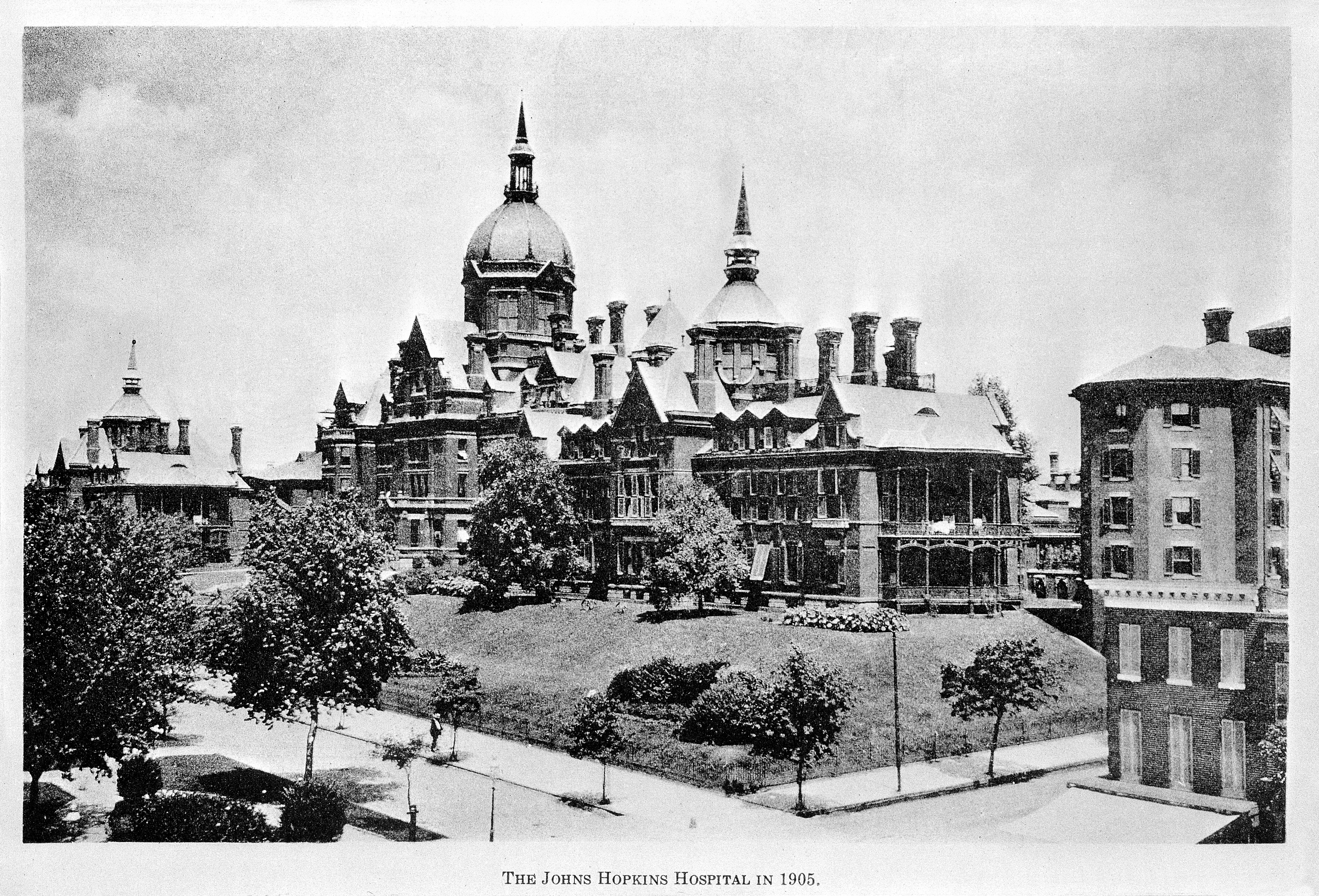 The Johns Hopkins Hospital in 1905 Wellcome Images